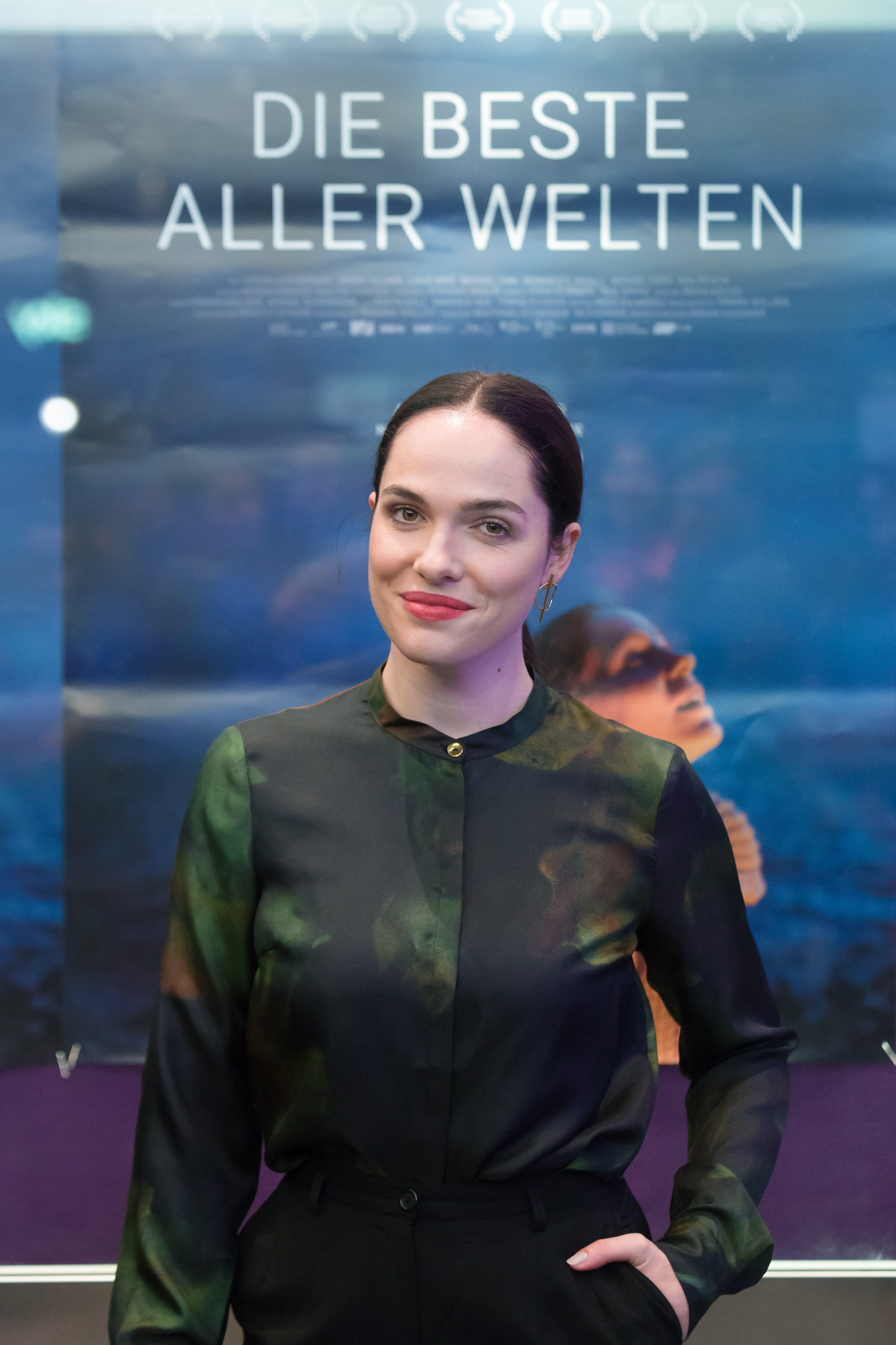 Verena Altenberger; Viennese premiere of The Best Of All Worlds at Gartenbaukino, Vienna, Austria.